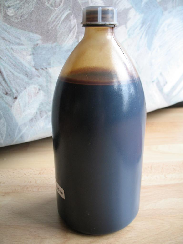 A sample of crude oil from Haenigsen, Germany.